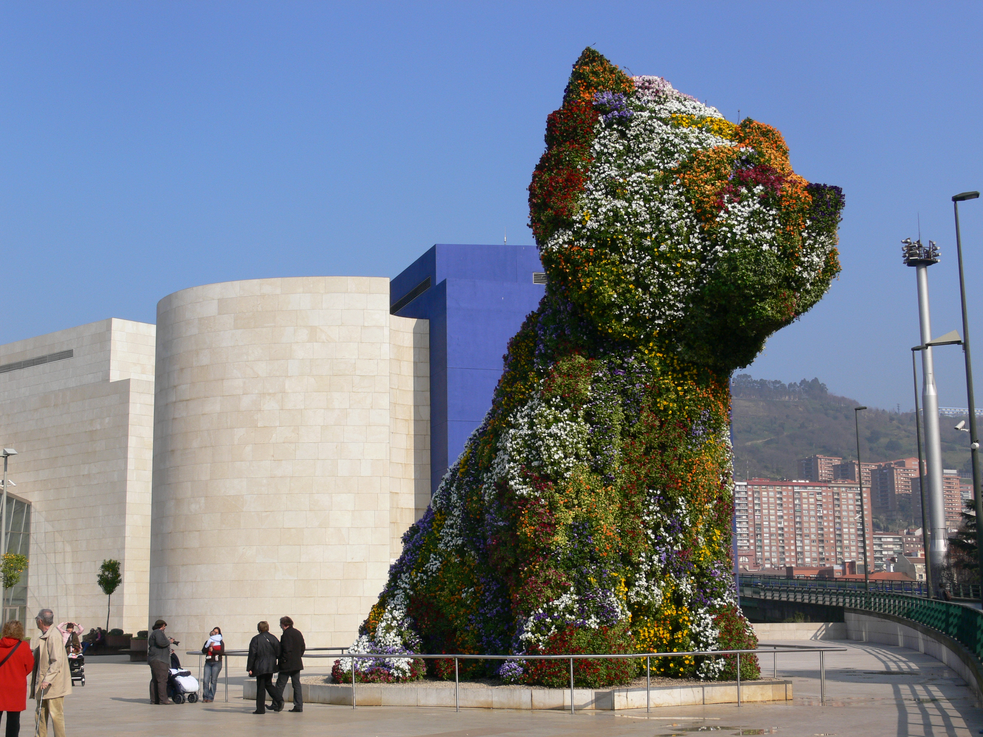 Jeff Koons: "Puppy" (sculpture in front of the Guggenheim Museum Bilbao)